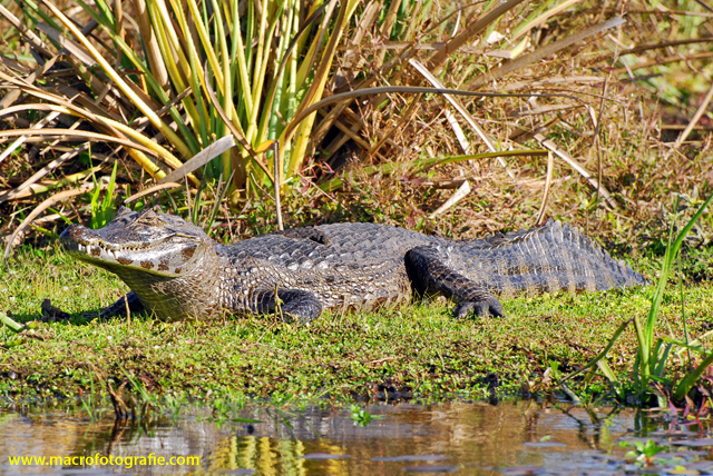 Yacare Caiman